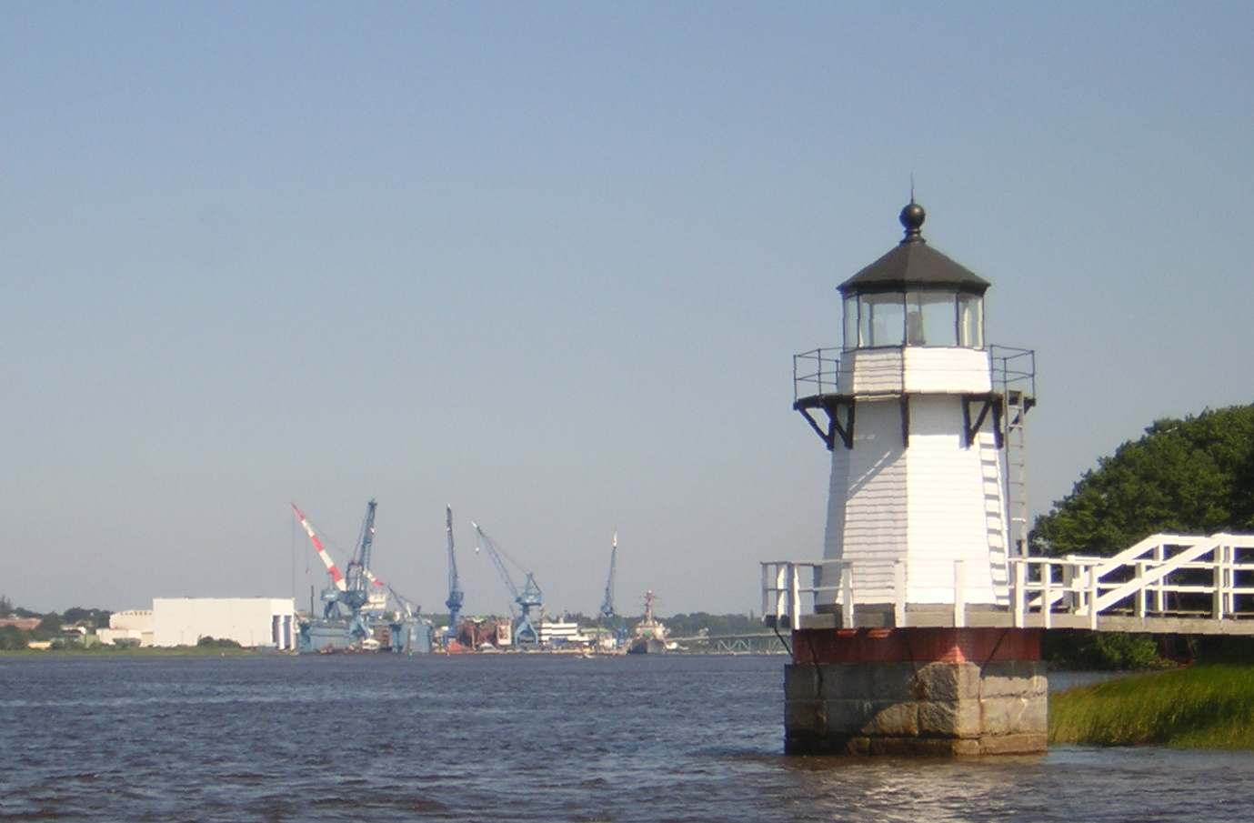 Doubling Point Lighthouse, Georgetown, Maine, USA, with Bath Iron Works in background